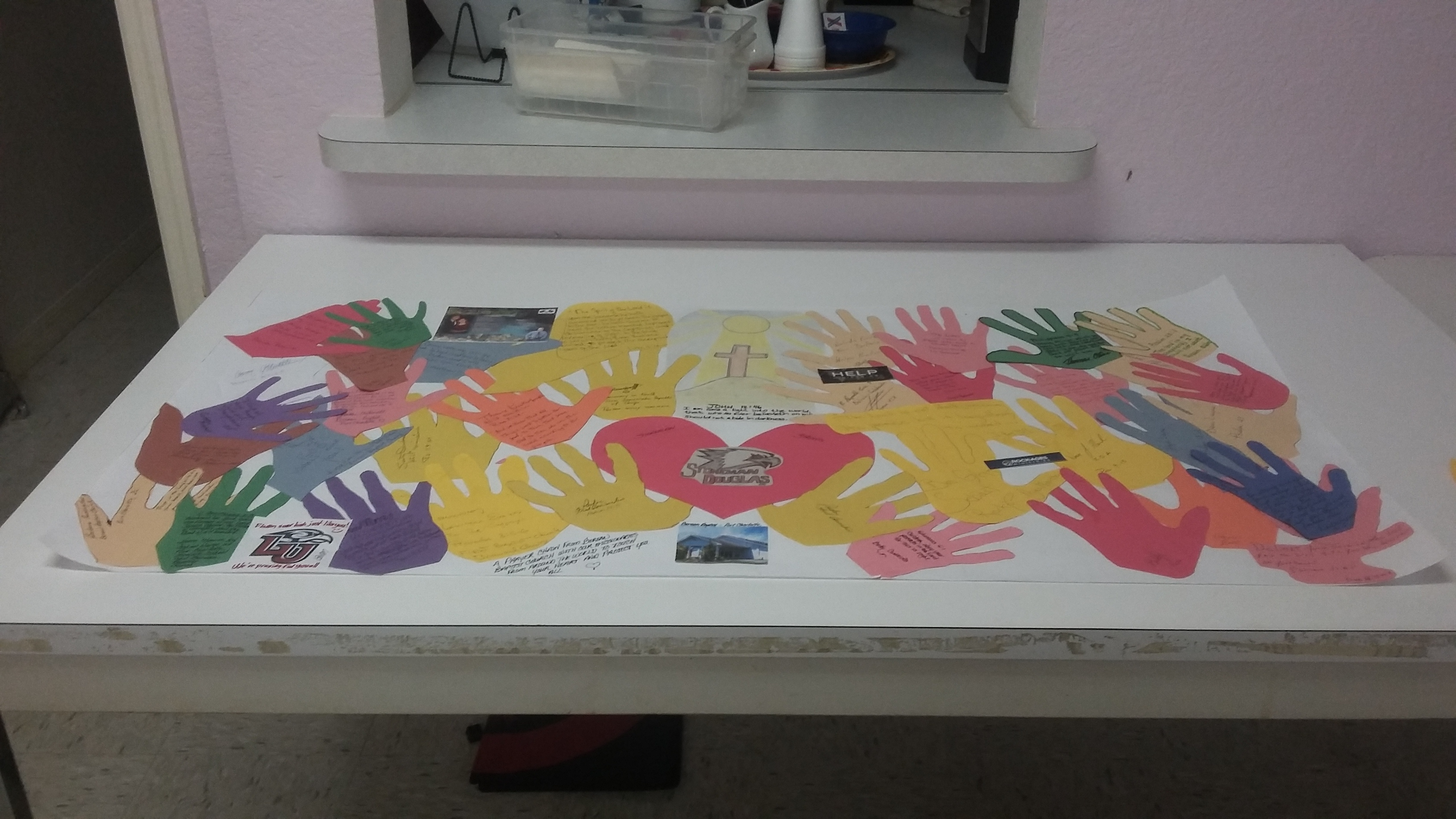 A banner I created, with the help of fellow members of Berean Baptist Church, for the students and staff at Marjory Stoneman Douglas High School after the the February 2018 massacre. At the request of school officials, institutions and organizations from around the world made banners offering support for the survivors; the school hung them up for display on campus. User:PCHS-NJROTC is the proper copyright holder of this work as the extent of other people participating was to cut out a profile of their hands on construction paper (something ineligible for copyright in the United States) for me to glue to the banner paper along with some prayer cards from missionaries who happened to visit the church for mission week around when the shooting happened, a picture of the church, and my university's logo, all of which are used under de minimis as they are such small parts of the banner and are barely recognizable in this image on the Commons